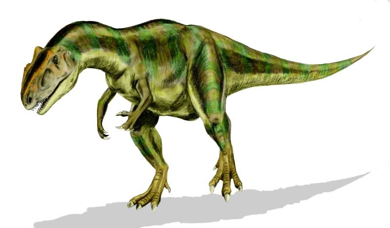 Allosaurus fragilis, an allosaurid theropod from the Late Jurassic pf North America, pencil drawing